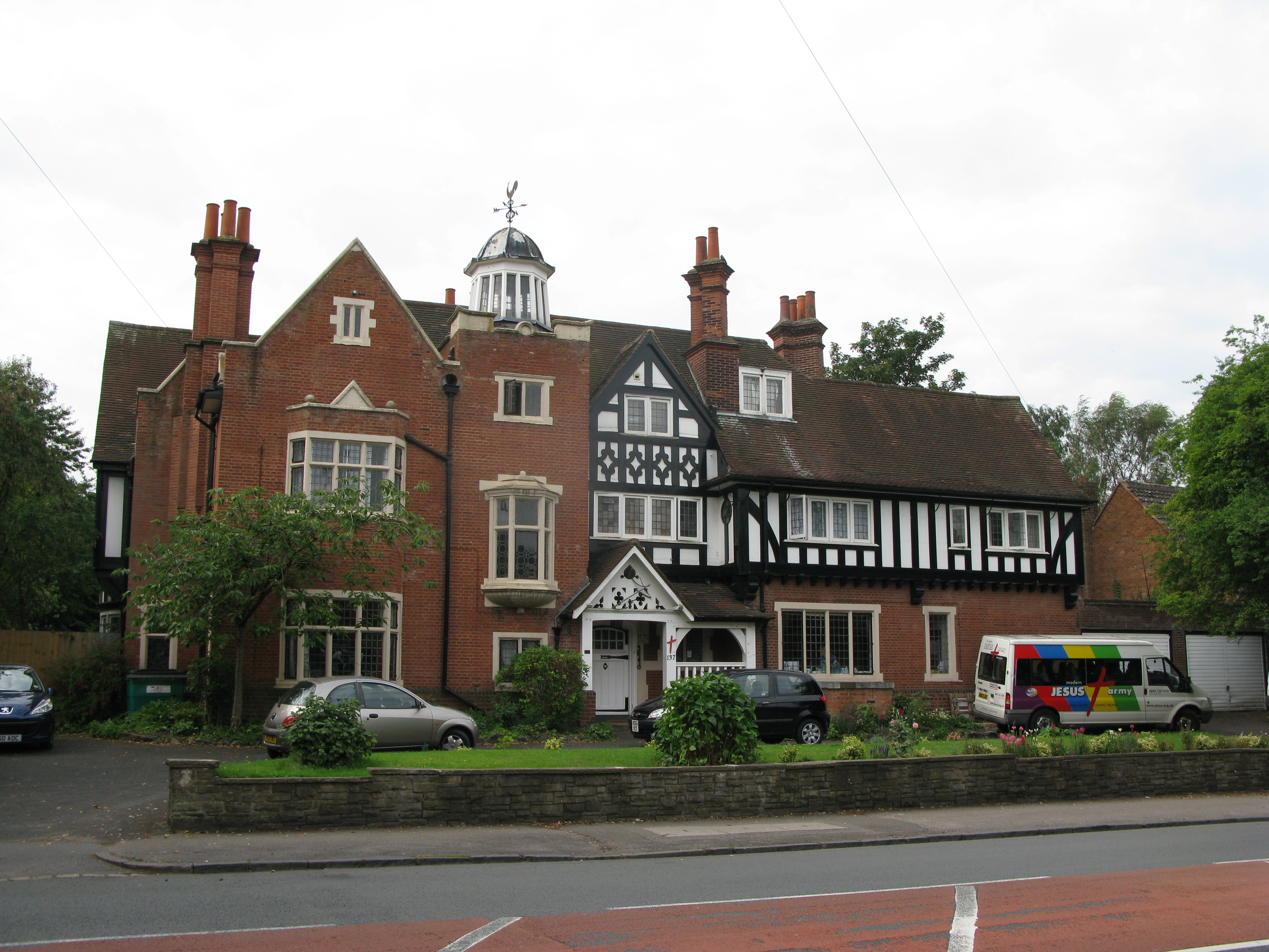 Grade II*